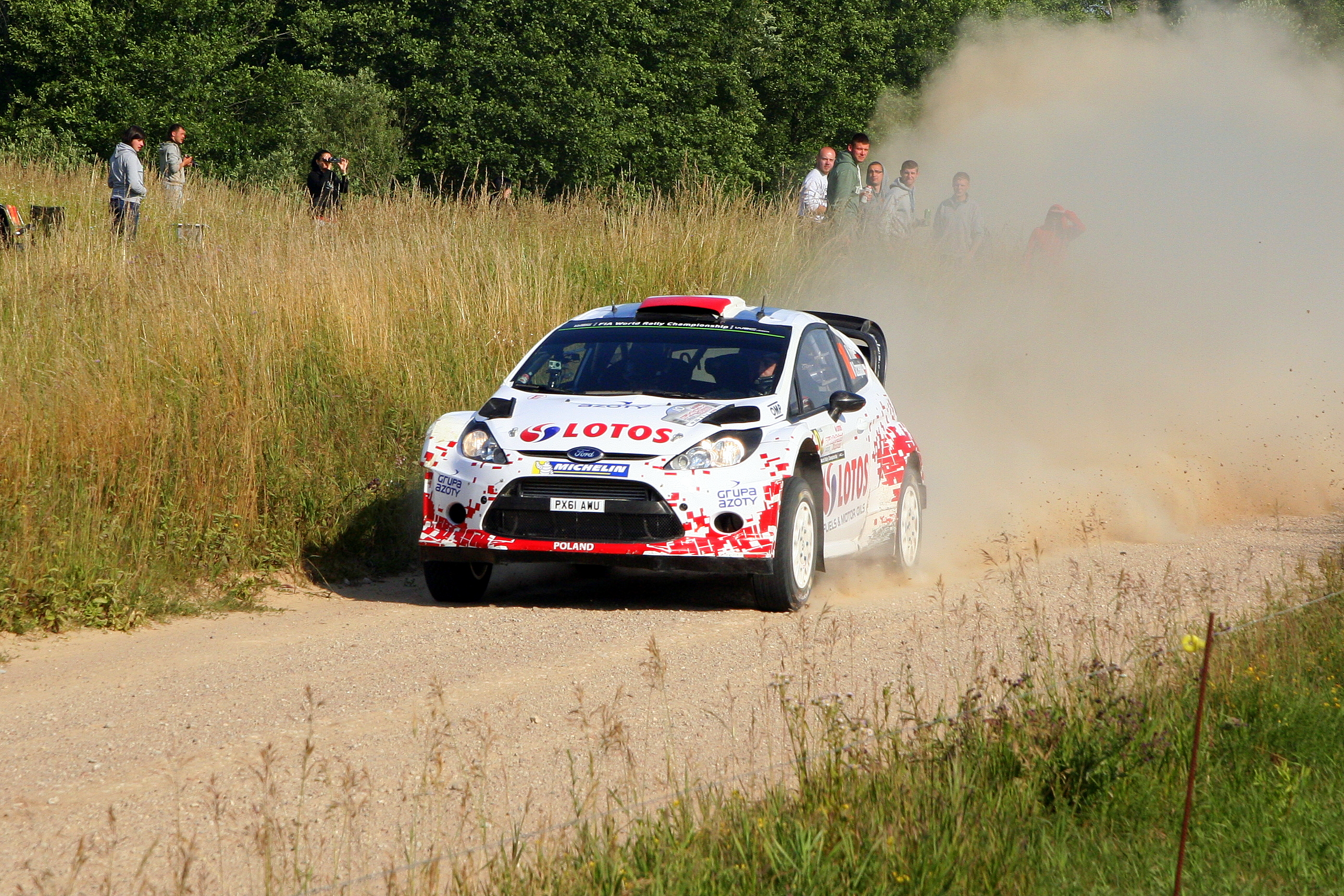 Rober Kubica during 71st LOTOS Rally Poland, 11 OS Chmielowo 1